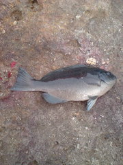 mejina